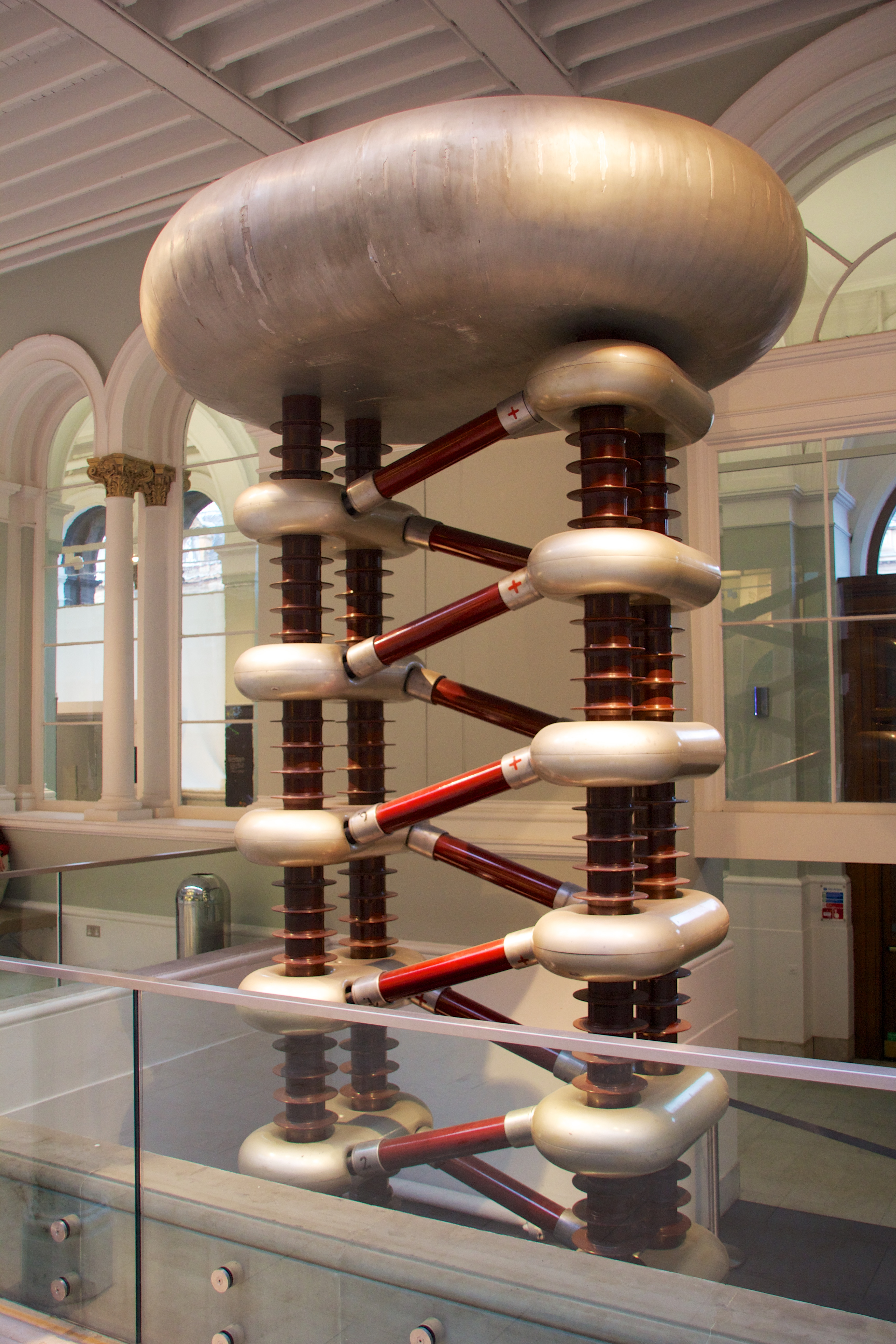 Part of the Cockcroft Walton Accelerator; an electric circuit to produce a high voltage. In the National Museum of Scotland, Edinburgh.